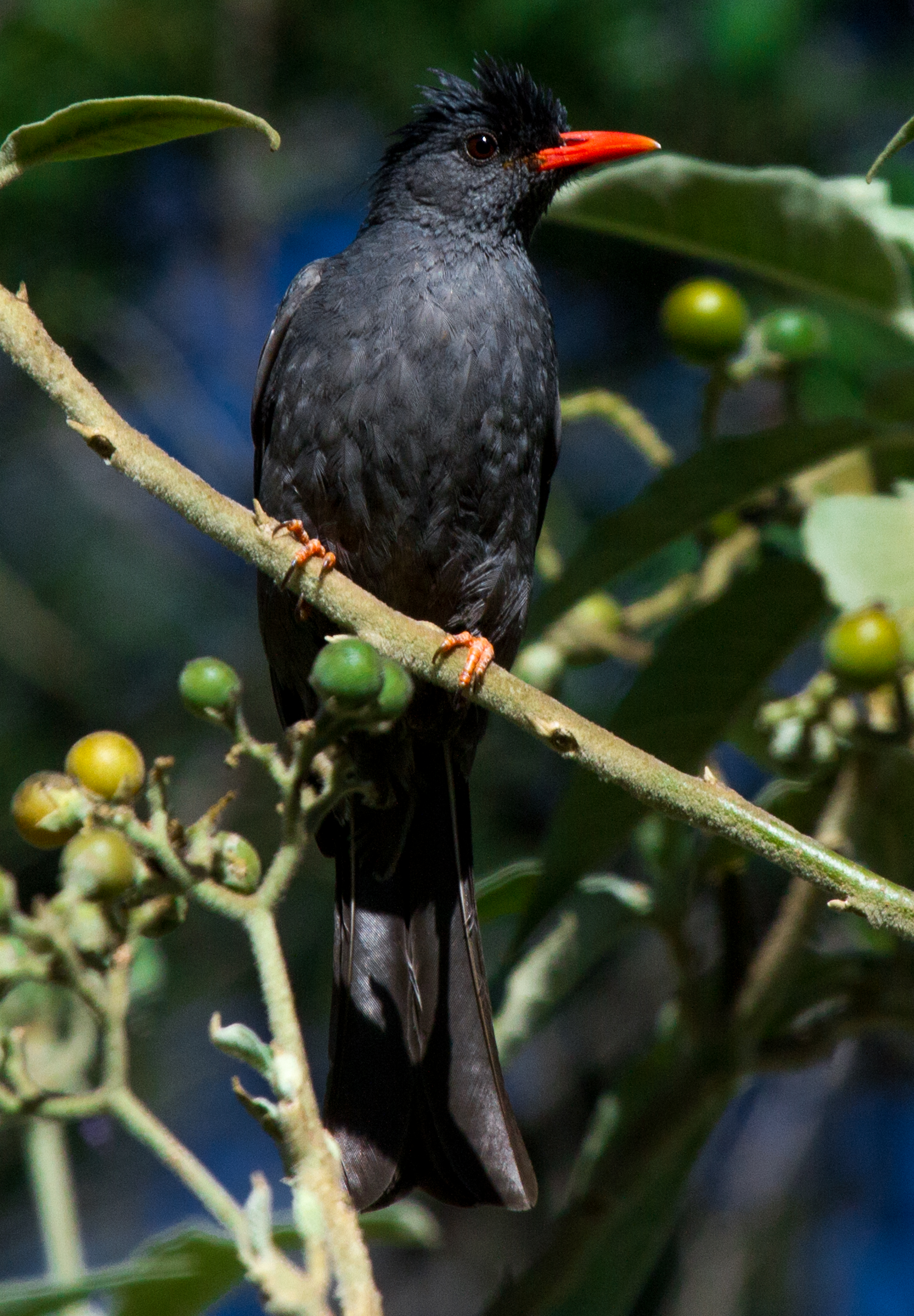 Black Bulbul (Hypsipetes ganeesa)